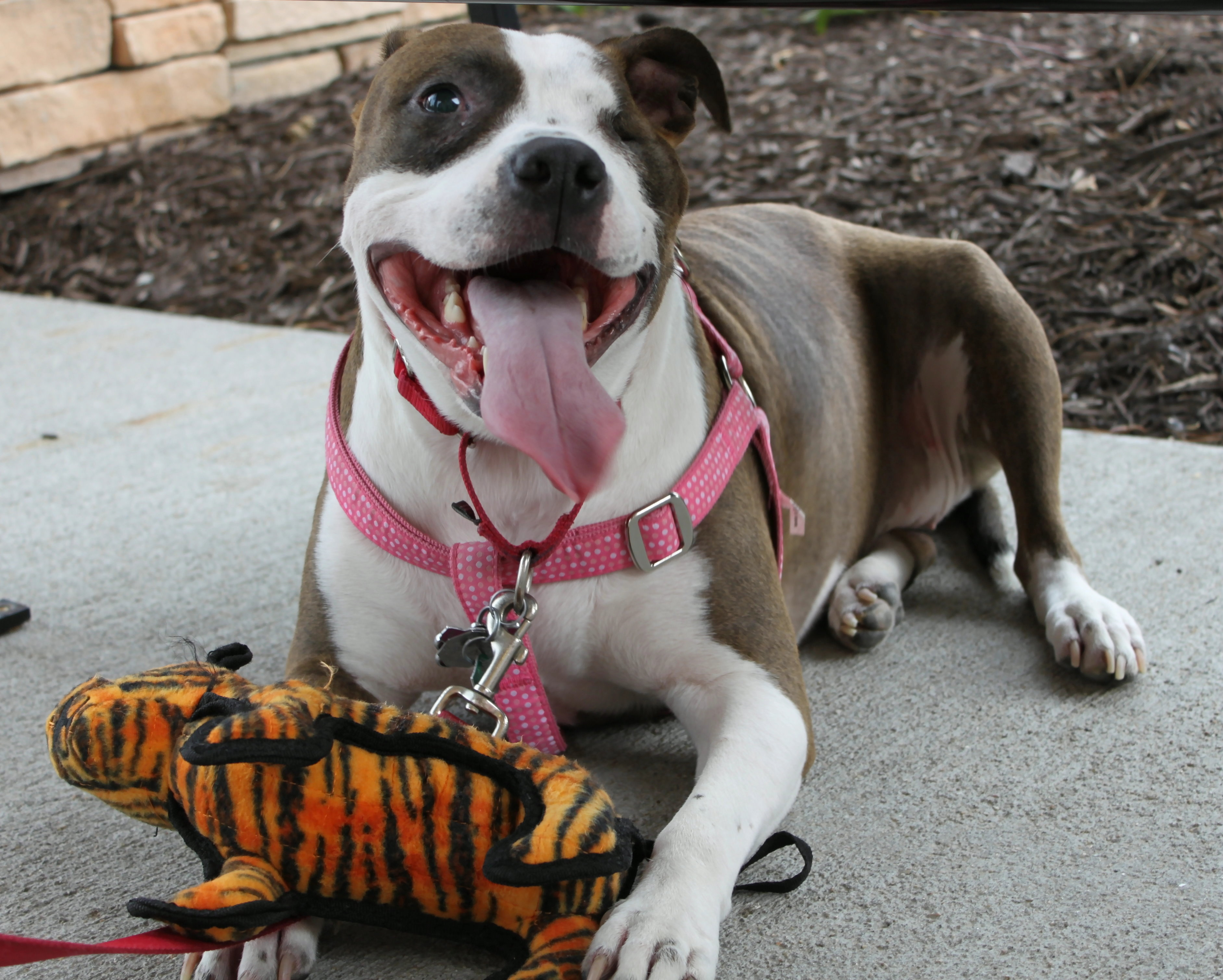 Star the Dog:Photo by Laura Matlak